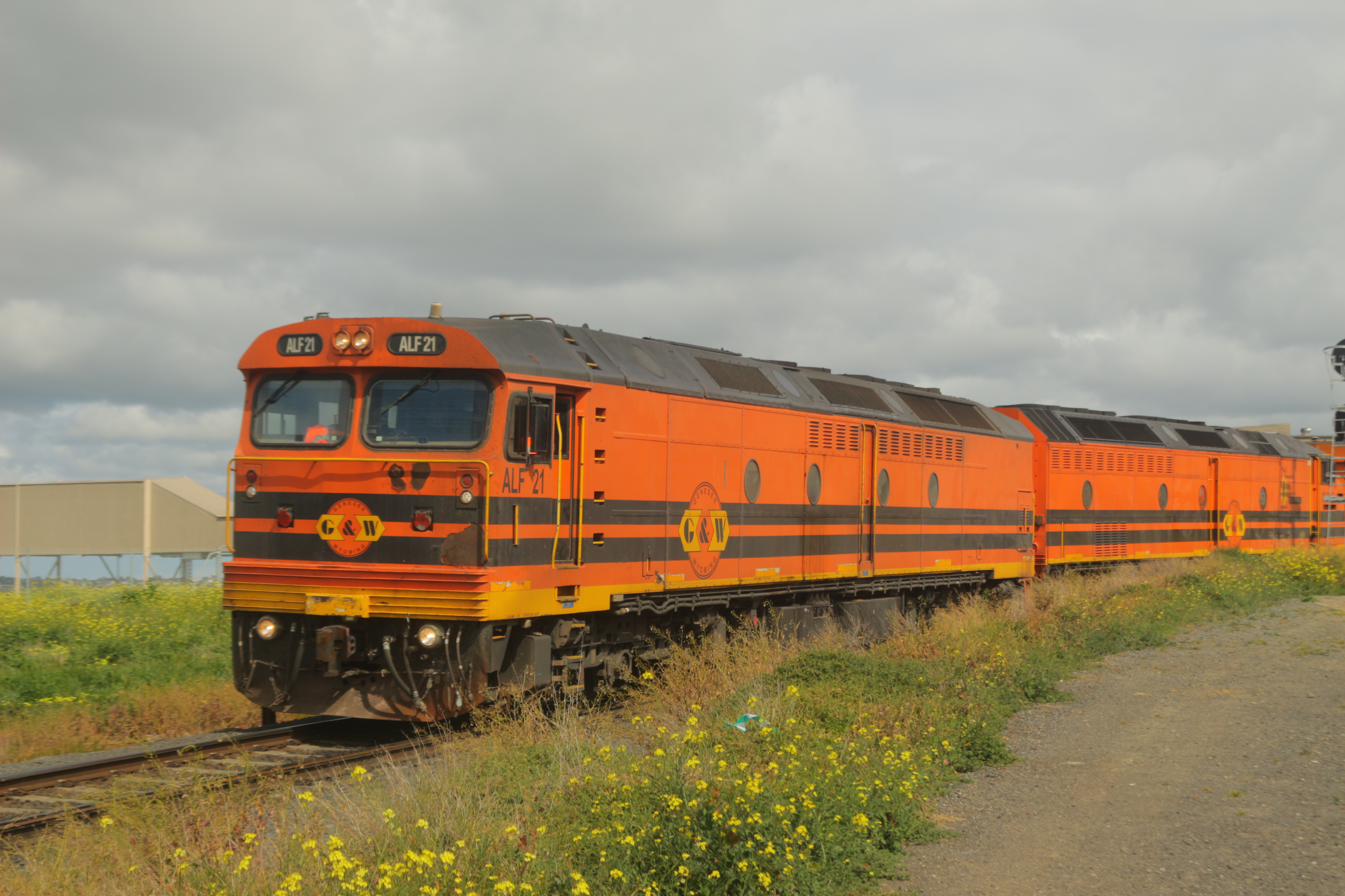 Genesee & Wyoming ALF21 (Ex AL20) at North Geelong Grain Loop 24/9/2019